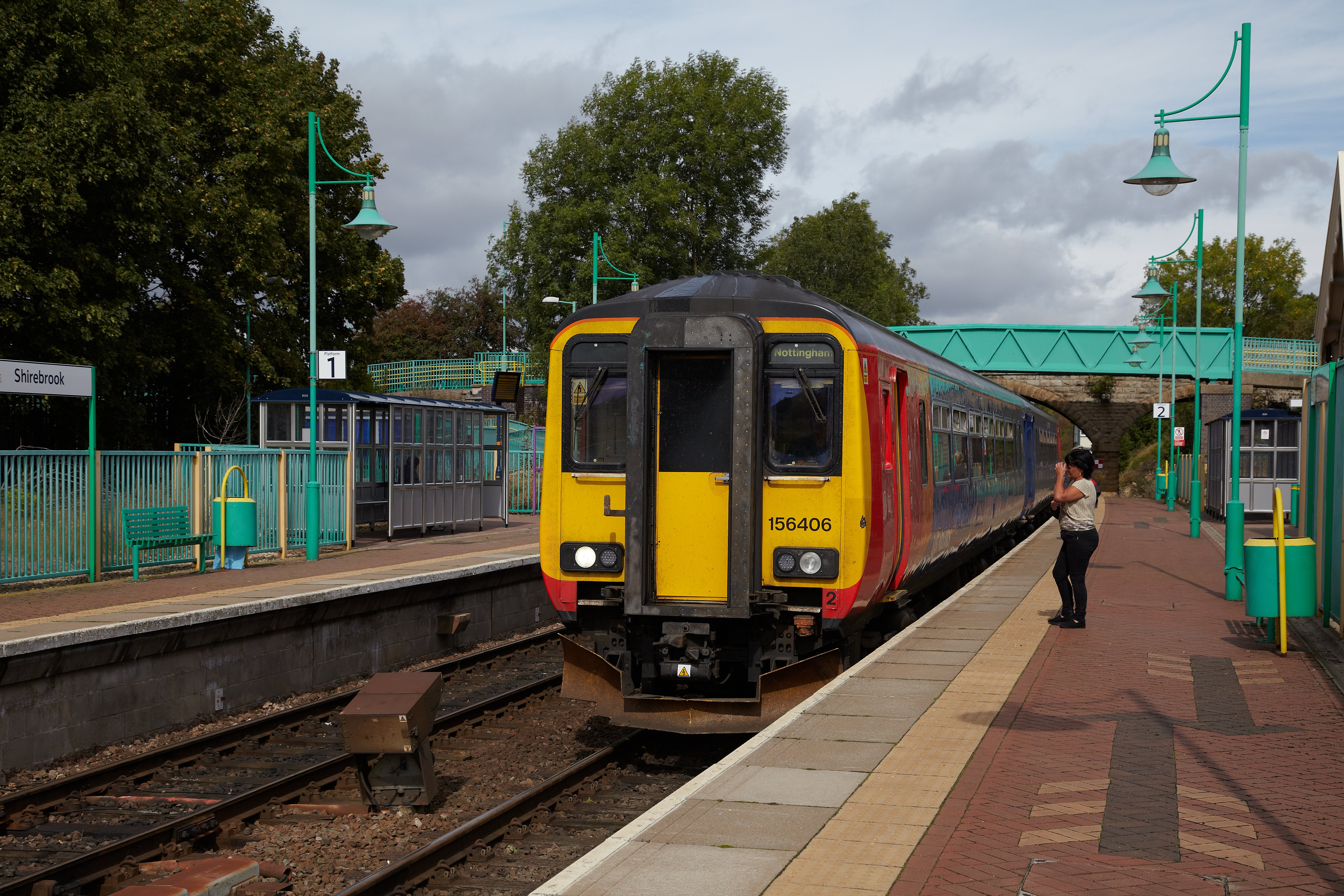 156406 calls at Shirebrook with a Worksop - Nottingham Robin Hood line service. Note the Robin Hood branding (Yet to be applied) made into a brick mosaic on the platform